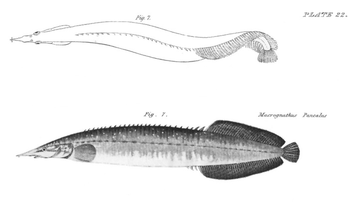 Macrognathus pancalus, sketch from the original description by Hamilton, 1822